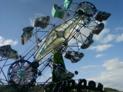 One of the oldest models from the 70's